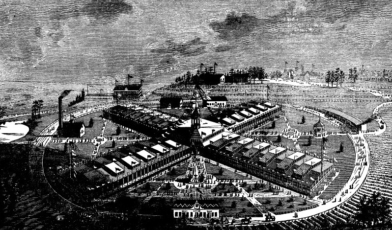 Contemporary rendering of the 1881 Exposition. Captioned As {}